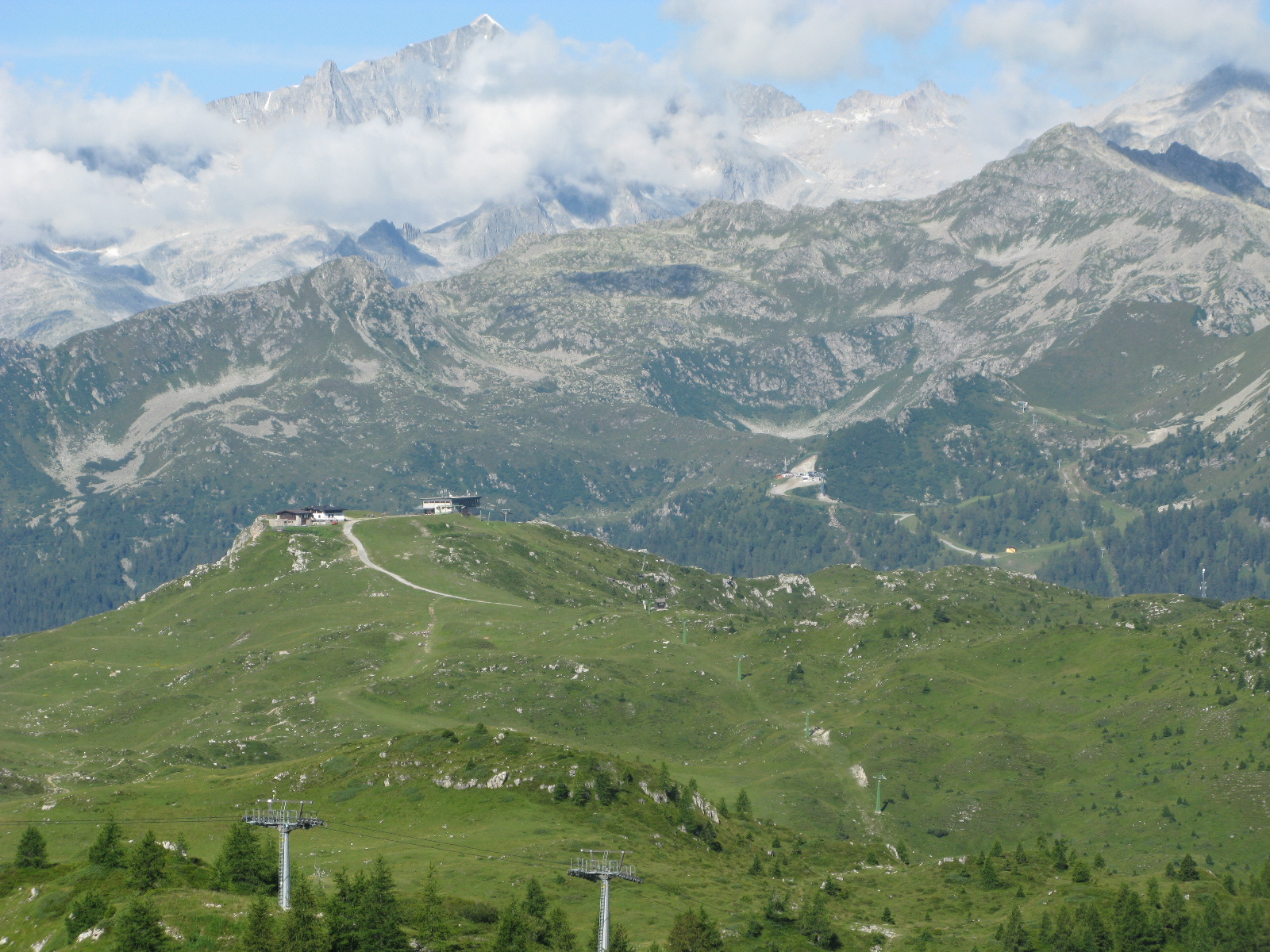 Nature Park Adamello-Brenta (Q769604) - Mount Spinale (front) and Presanella Top (back)